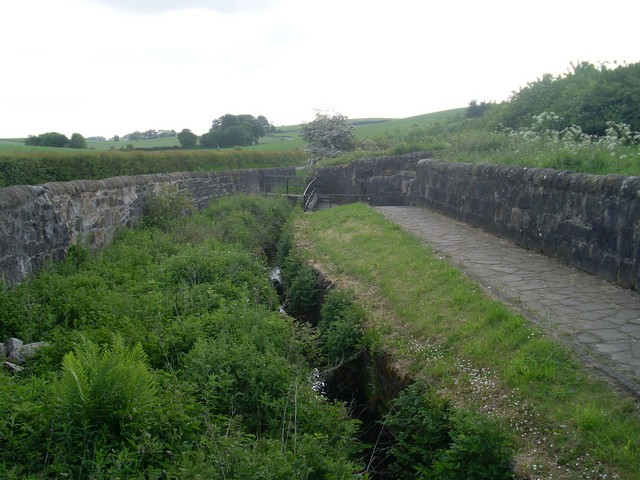 Stream and Wallace's Well The well at the back of the image is reputed to be where William Wallace took his last drink as a free man.